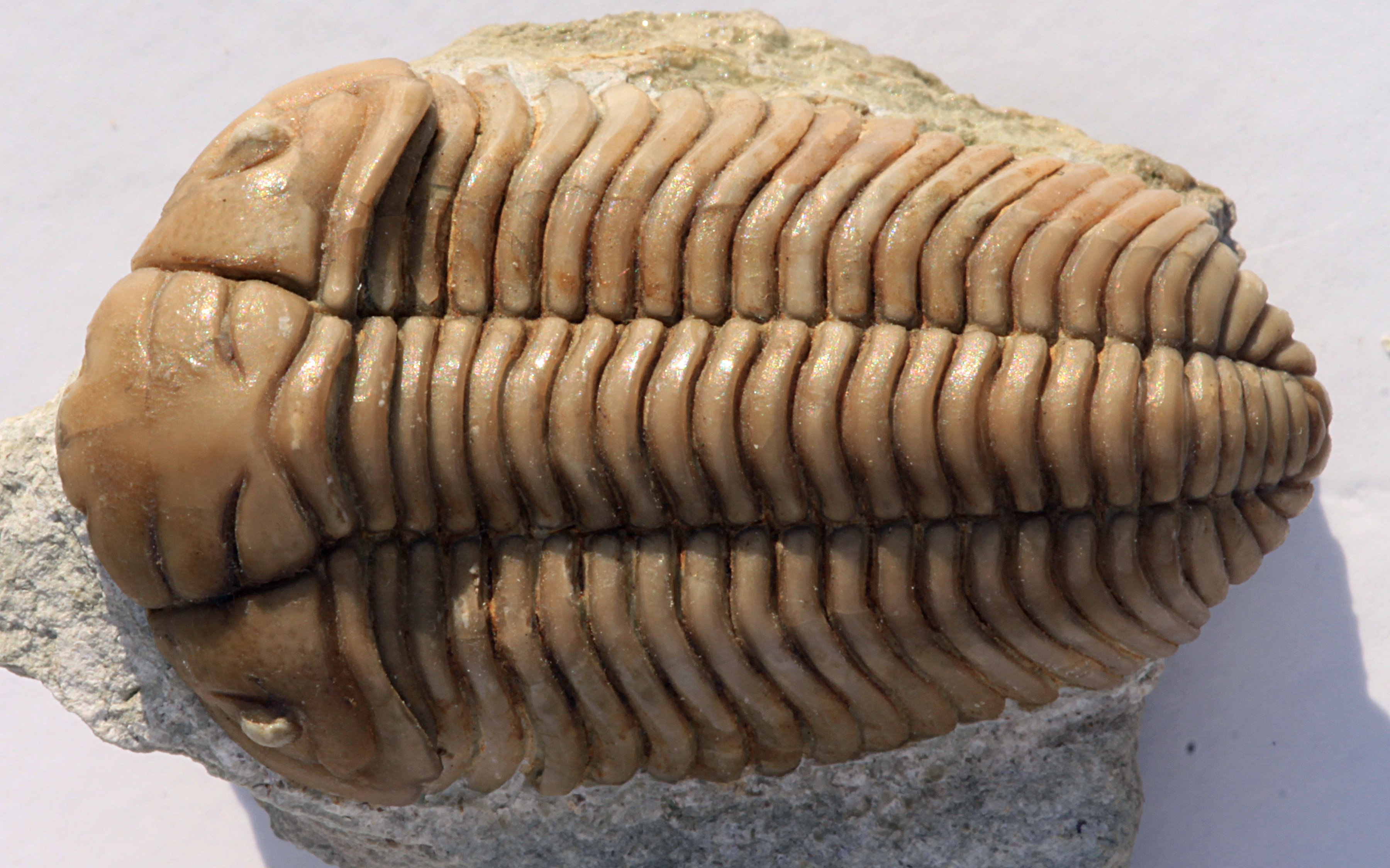 A Pliomera fischeri trilobite, Order Phacopida, Family Pliomeridae, 39mm along the axis, dorsal view, collected in the Putilovo quarry near Petrograd, Russian Republic, from the Lower Ordovician